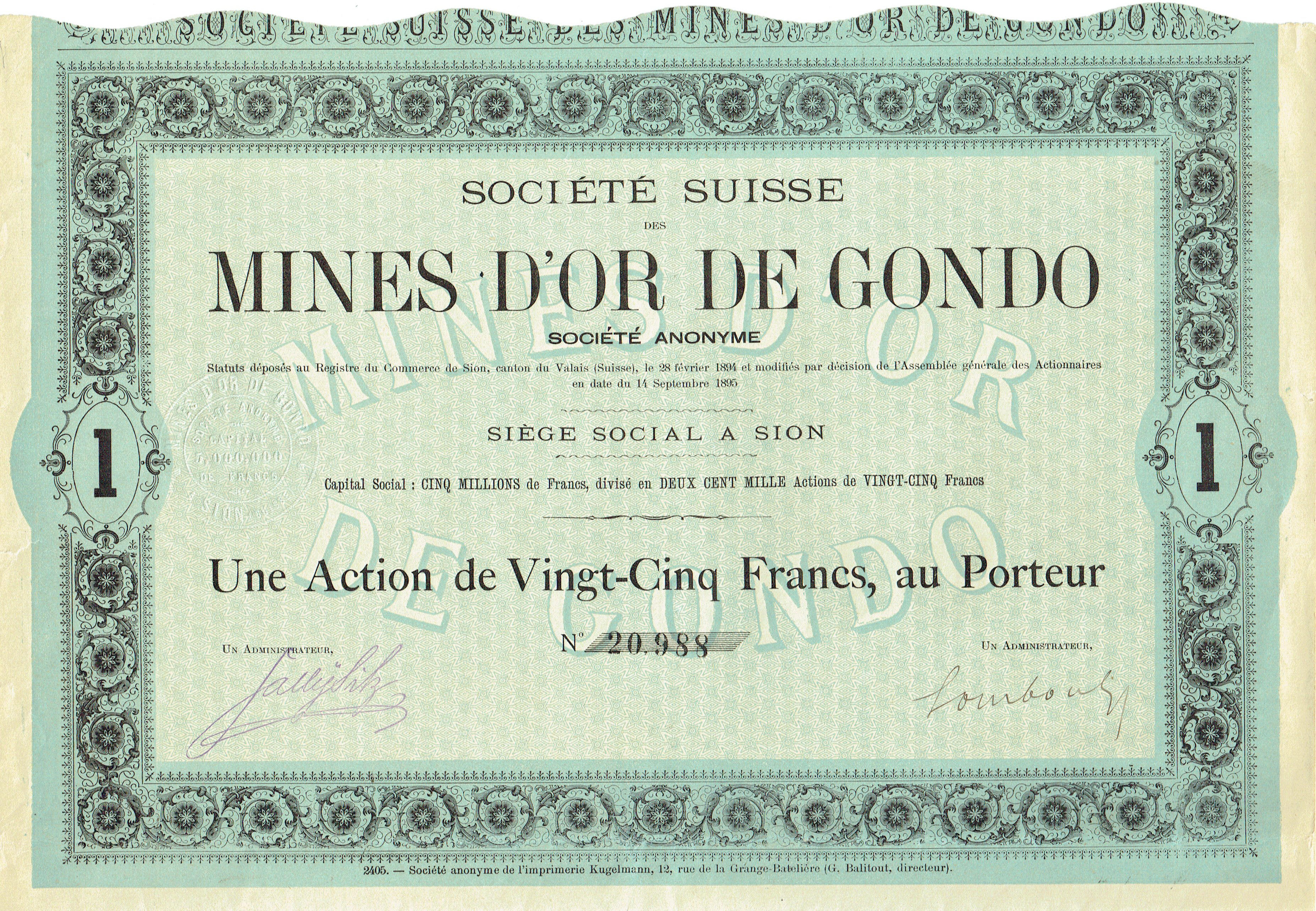 Share of the Société Suisse des Mines d'Or de Gondo SA, issued 14. September 1895